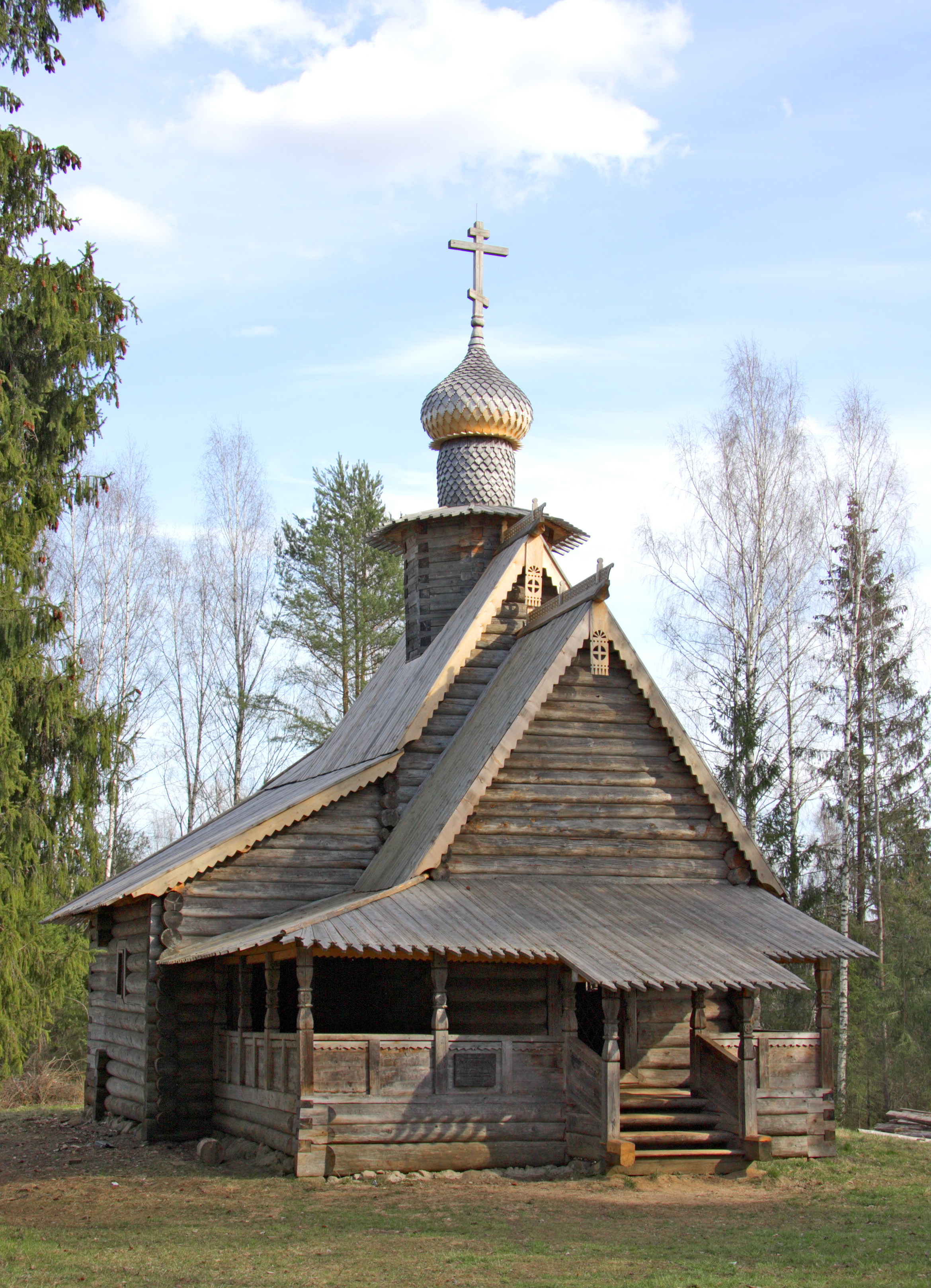 Znameniya Wooden Church in Vasilevo near Torzhok, overview